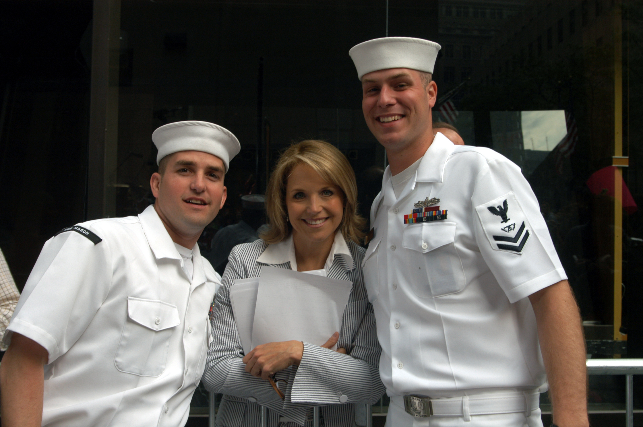 New York City (May 26th, 2006) - “Today Show” host Katie Couric takes a moment to greet Fire Controlman 1st Class Jeremy Millspaugh and Fire Controlman 2nd Class Chris Perras during a commercial break at the CBS Studios in New York. Millspaugh and Perras are stationed aboard the guided-missile destroyer USS Mason (DDG 87), participating in New York City Fleet Week 2006. Fleet Week is New York City's celebration of the sea services honoring those who have made the ultimate sacrifice through numerous Memorial Day events, remembrances and services. U.S. Navy photo by Photographer’s Mate 3rd Kyle McCloud (RELEASED)